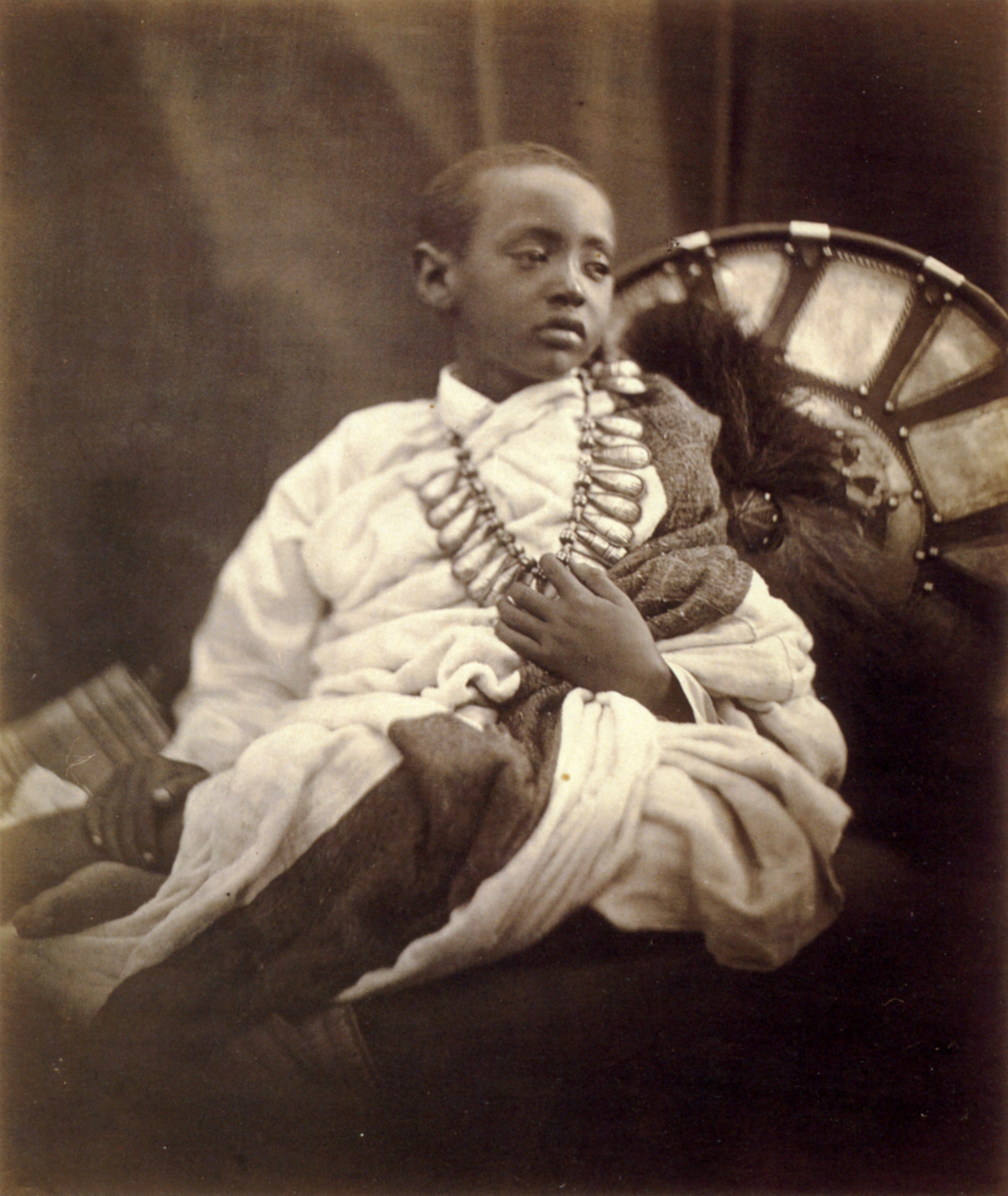 Déjatch Alámayou, King Theodore's Son. Son and heir to Emperor Theodore of Abyssinia. Albumen silver print, 306 x 256mm (12 x 10 1/8").